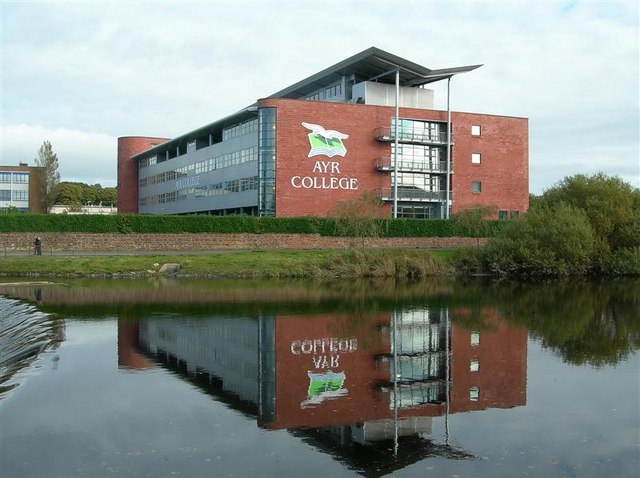 Ayr College Reflections The new extension to Ayr College, viewed from the Mill Brae car park just above the weir.